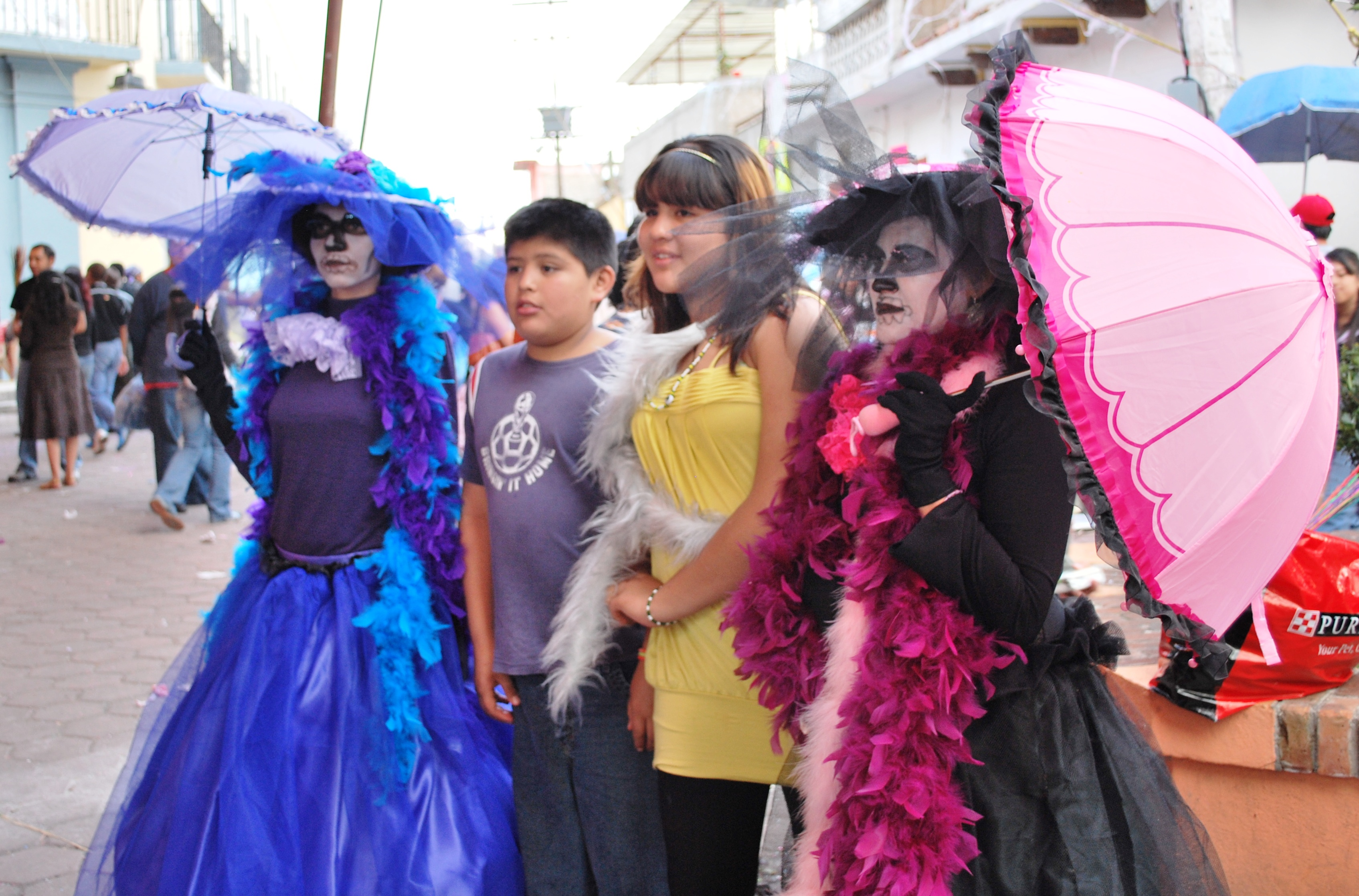 Girls getting picture taken with two dressed up at La Calavera Catrina at Day of the Dead in San Andres Mixquic, Mexico City